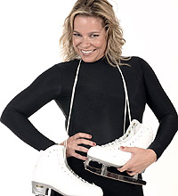 American (though working in Spain) actress Kim Manning.